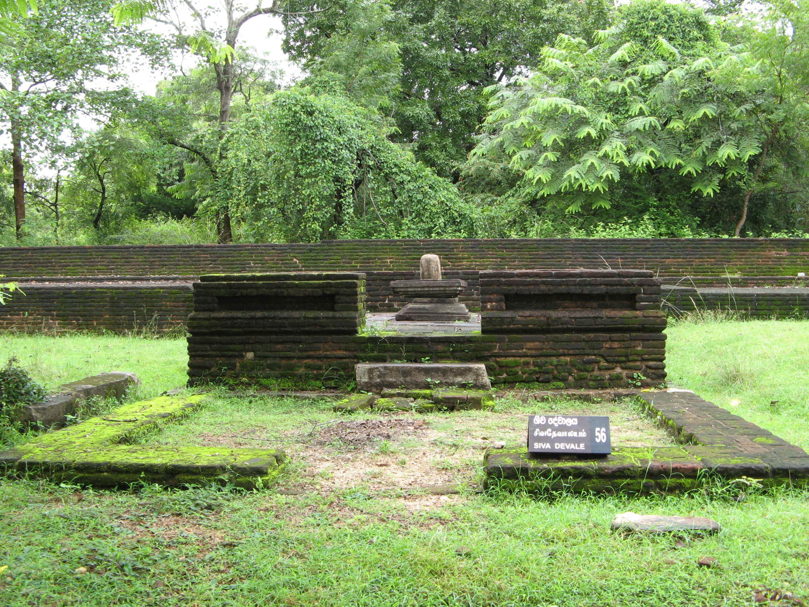 This Shiva devale is located in the Hindu Shrine area just north of the Sacred Center. Unlike most of my photos, this one is straight out of the camera.